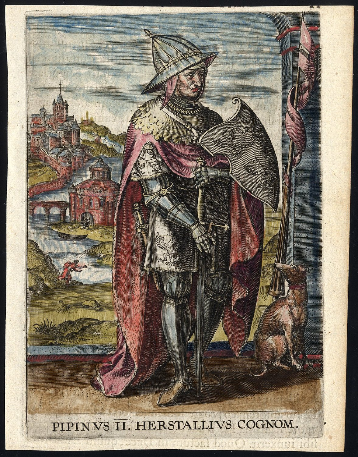 Pepin of Herstal